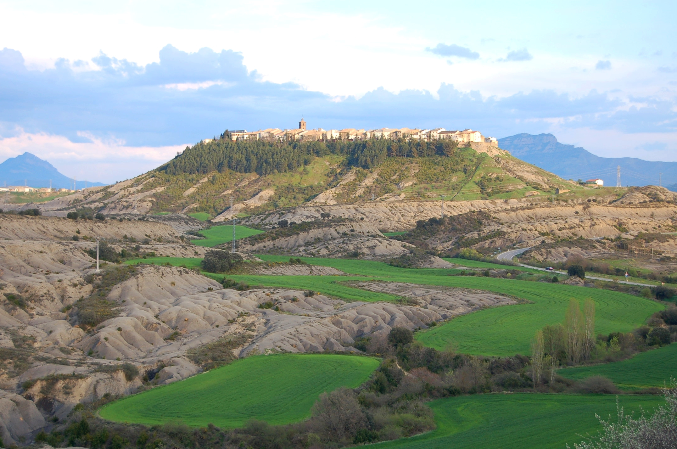 The town of Berdún rises on a hilltop in the center of the Valle D'Arres, the valley that forms the heartland of Aragon. It looks like unto Edoras on the plains of Rohan. It think it may be the most magical fairy-tale sight I've ever seen. I was lucky to pass by and photograph it during sunset.